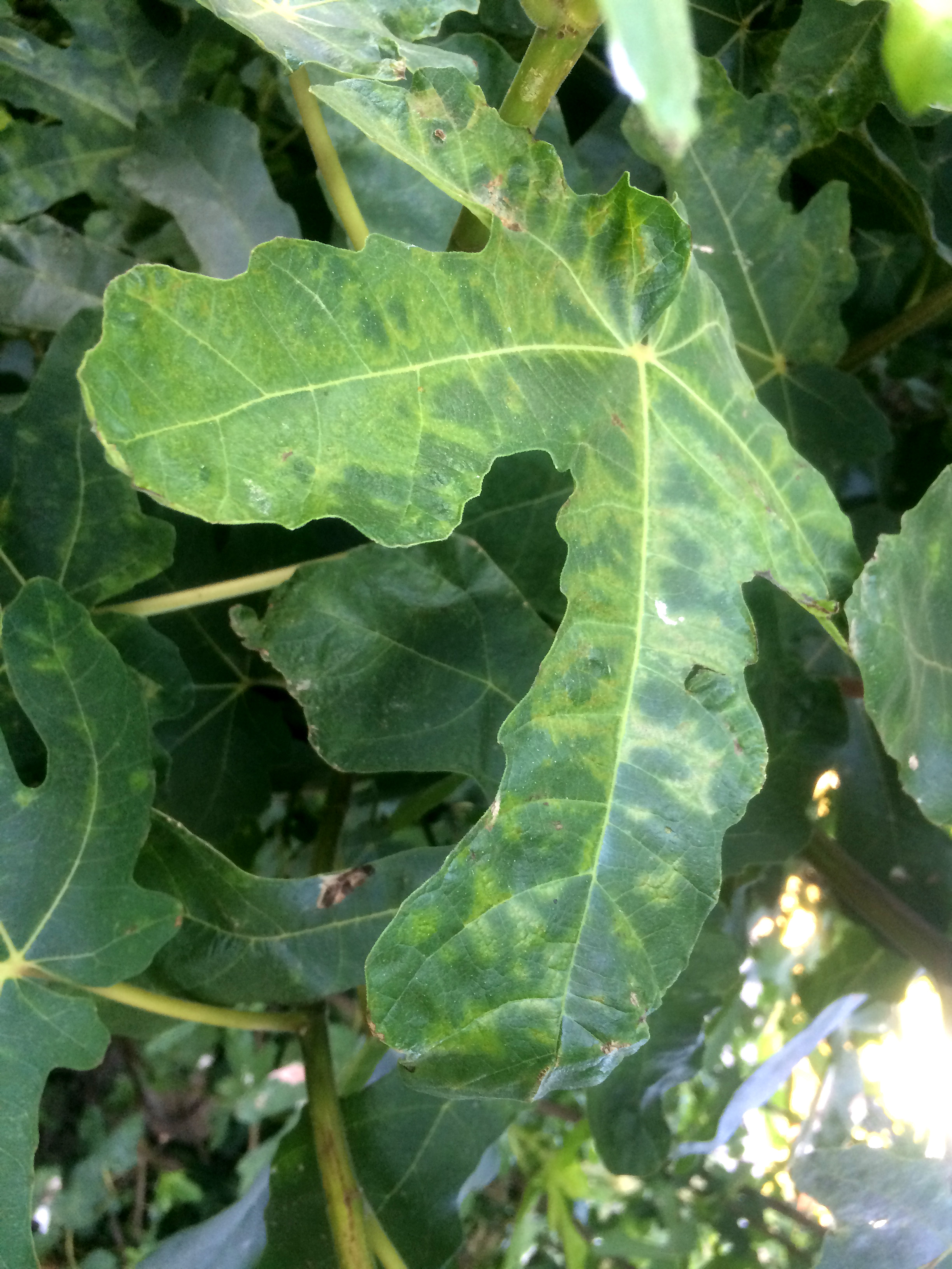 fig leaves virus